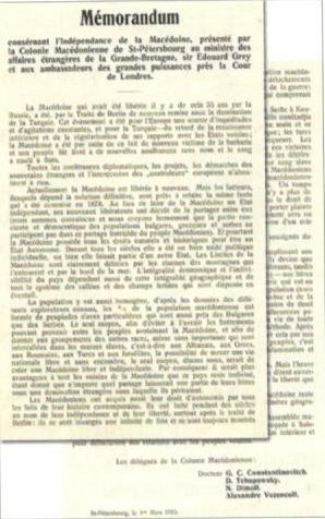 Memorandum calling for the independence of Macedonia from 1913